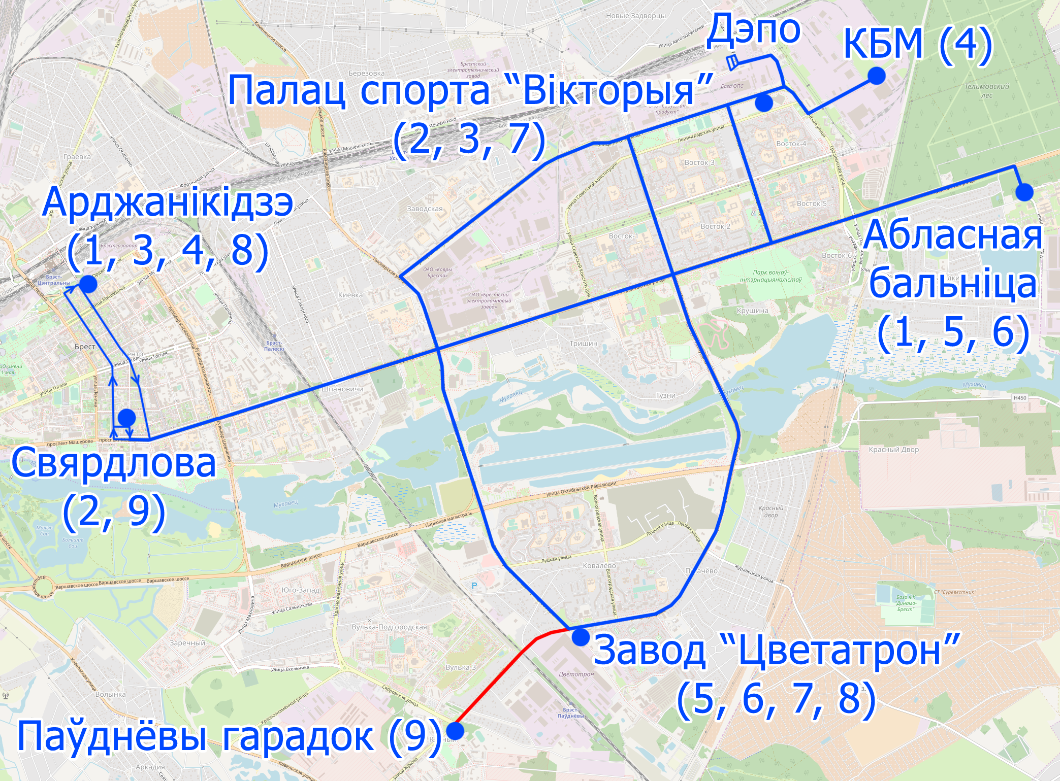 Trolleybus map of Brest, Belarus (in Belarusian). Non-electrified section for trolleybus No.9 with auxillary diesel generator is marked in red. This map may be incomplete, and may contain errors. Don't rely solely on it for navigation.